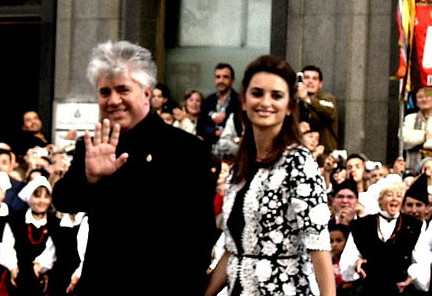 Spanish director Pedro Almodóvar and Penélope Cruz. Cropped from the source file.